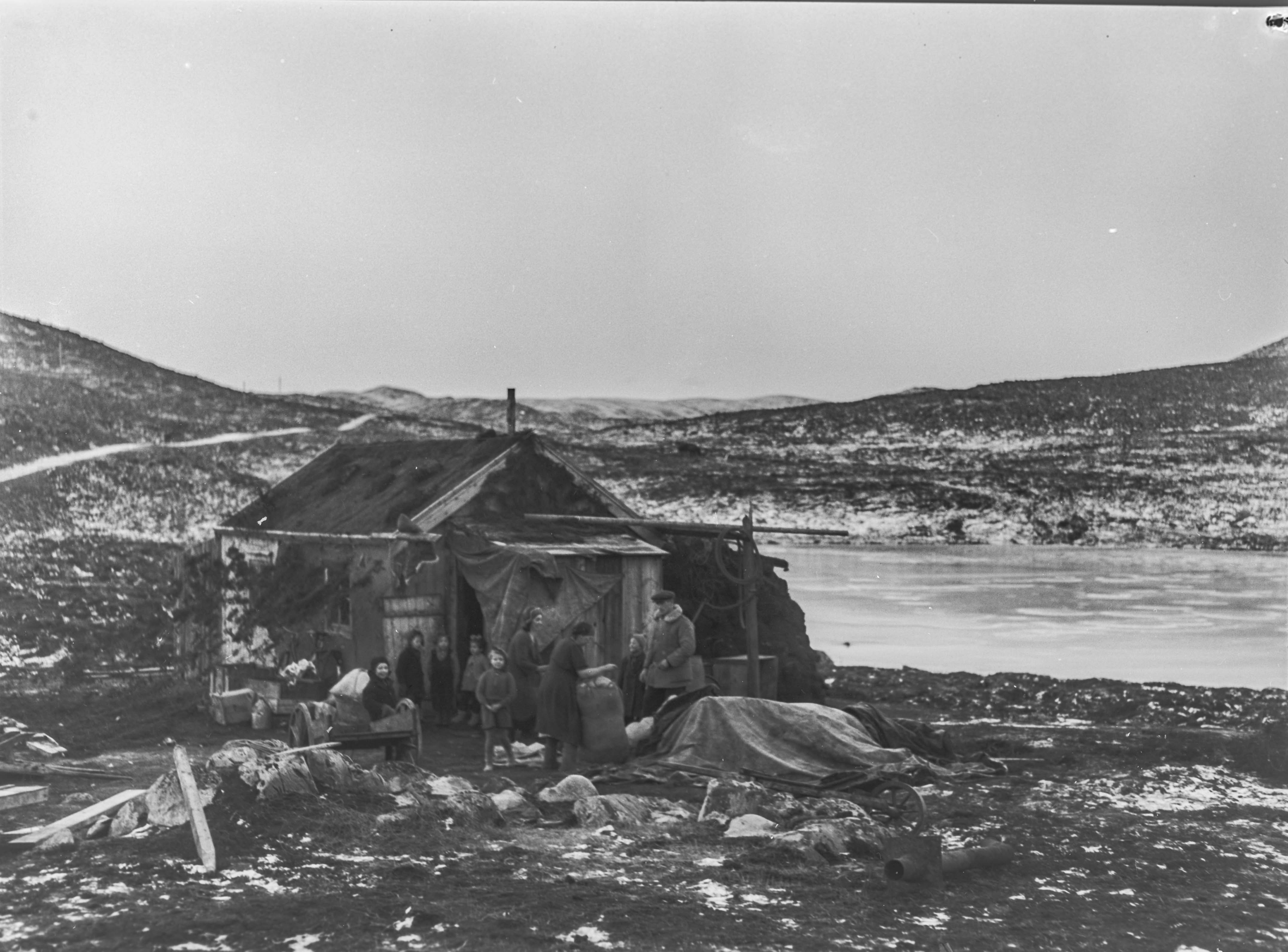 Photos from Flickr album "Evakueringen og frigjøringen av Finnmark" (The Evacuation and Liberation of Finnmark, 2015) by Riksarkivet (National Archives of Norway). Towards the end of World War II, with Operation Nordlicht, the Germans used the scorched earth tactic in Finnmark and northern Troms to halt the Red Army. As a consequence of this, few houses survived the war, and a large part of the population was forcefully evacuated further south (Tromsø was crowded), but many people avoided evacuation by hiding in caves and mountain huts and waited until the Germans were gone, then inspected their burned homes. There were 11,000 houses, 4,700 cow sheds, 106 schools, 27 churches, and 21 hospitals burned. There were 22,000 communications lines destroyed, roads were blown up, boats destroyed, animals killed, and 1,000 children separated from their parents. However, after taking the town of Kirkenes on 25 October 1944 (as the first town in Norway), the Red Army did not attempt further offensives in Norway. The town was handed over to Norway as the war ended. When war was over, more than 70,000 people were left homeless in Finnmark. The government imposed a temporary ban on residents returning to Finnmark because of the danger of landmines. The ban lasted until the summer of 1945 when evacuees were told that they could finally return home.